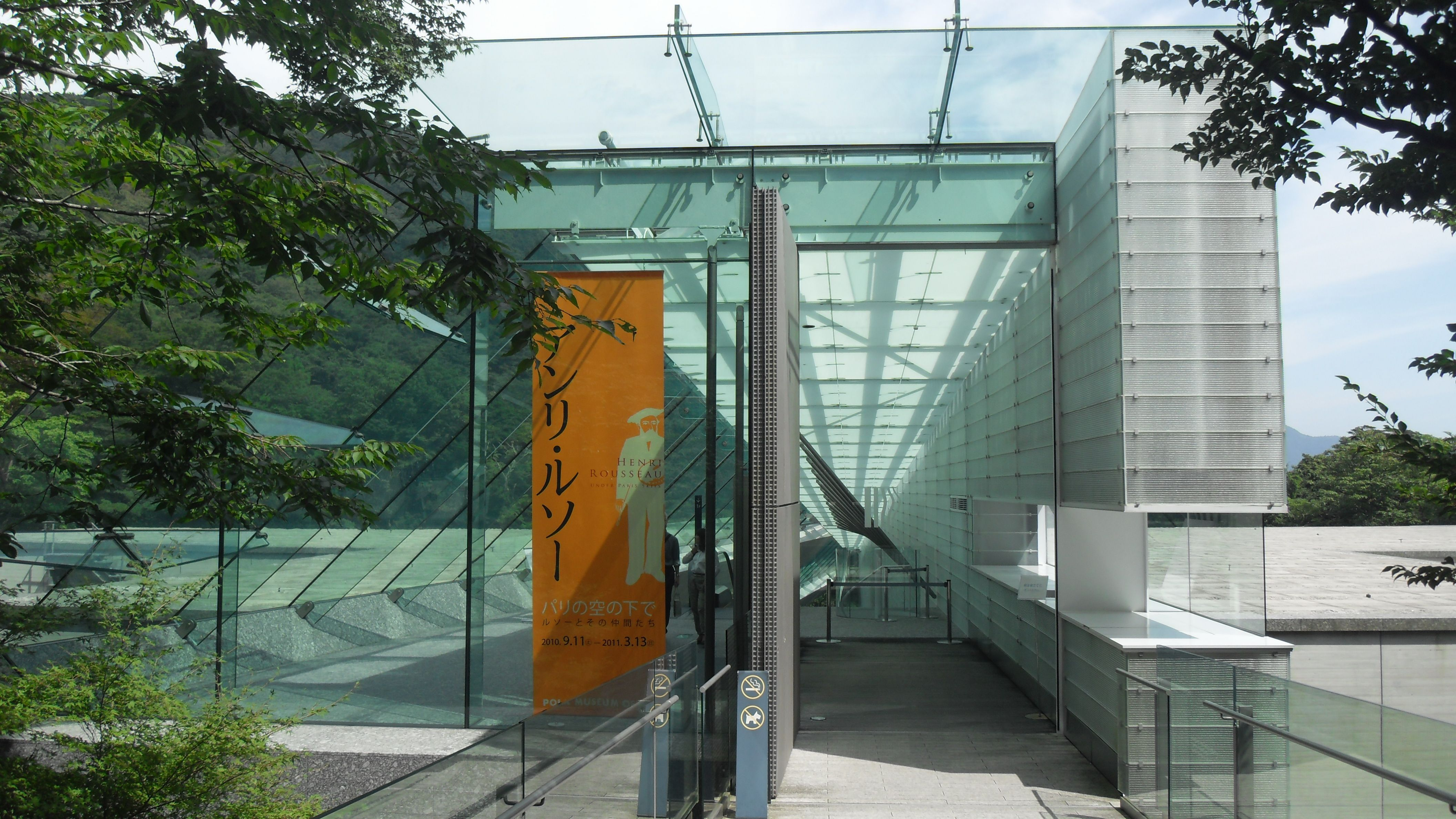 Pola Museum of Art, Hakone, Japan, Entrance